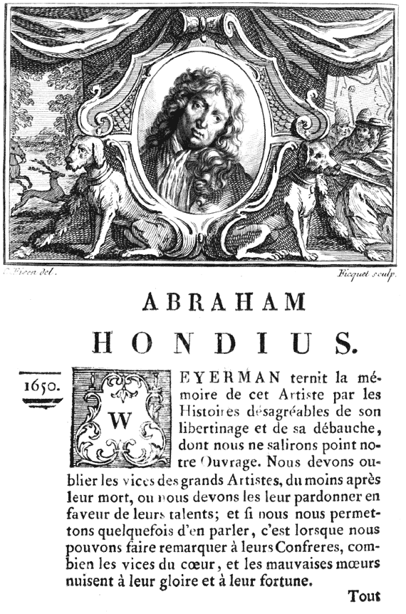 Book 3 of 4-volume painter biographies by Jean-Baptiste Descamps